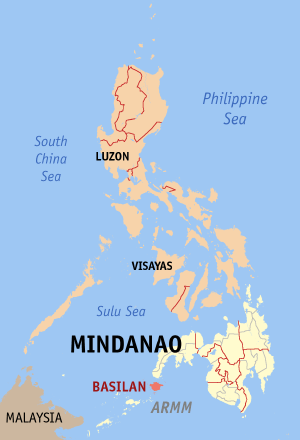 Map of the Philippines showing the location of Basilan